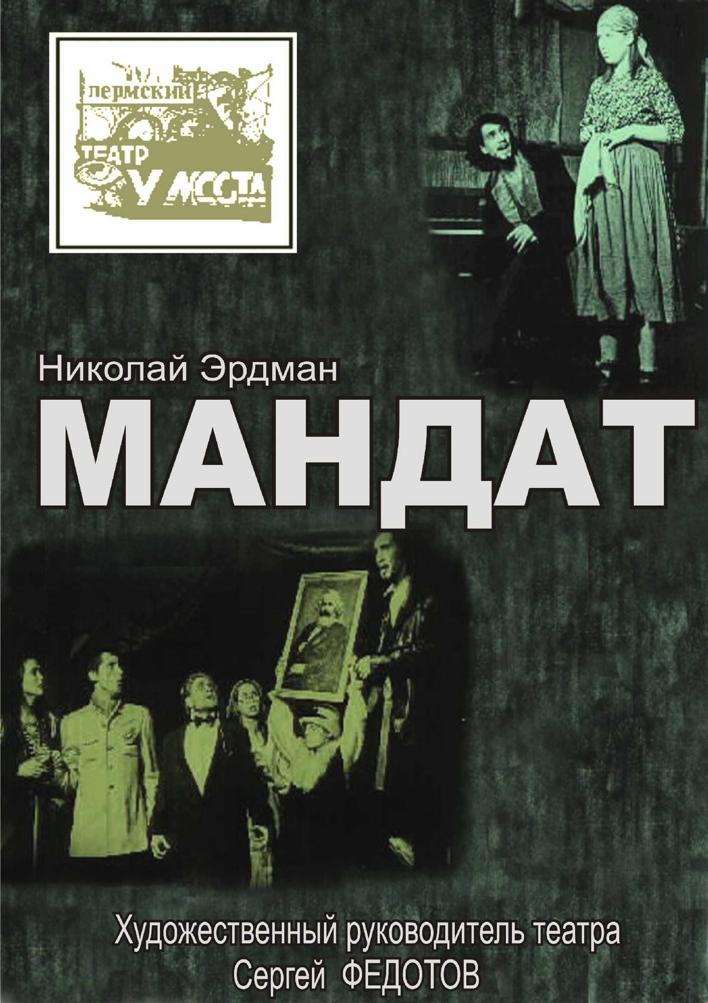 Poster for the first production of Theatre Near the Bridge in Perm, The Mandate.